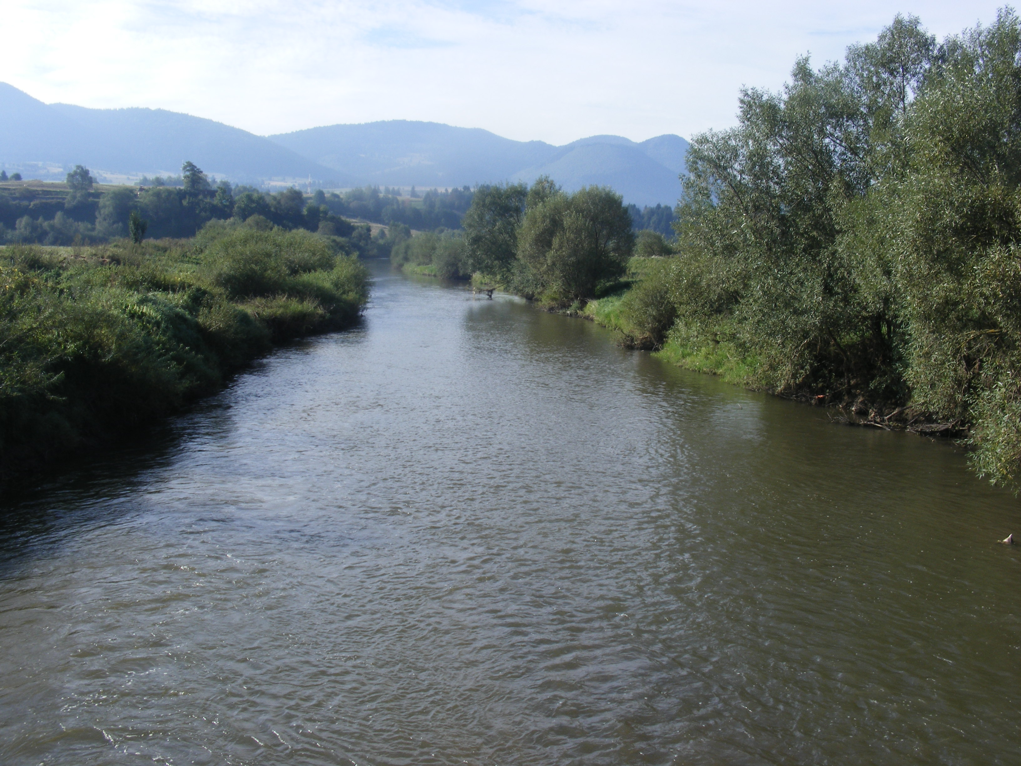 The Olt river near Tuşnadu Nou (Újtusnád), Romania, Harghita CountyRomână: Râul Olt lăngă satul Tuşnadu Nou (Újtusnád)